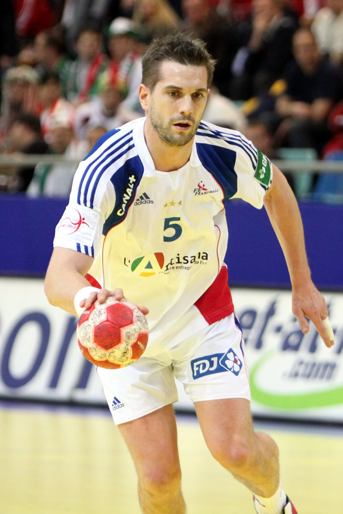 Guillaume Gille (HSV Hamburg), France national handball team